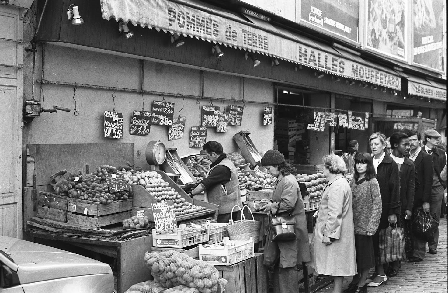 Market in Rue Moufetard 1980